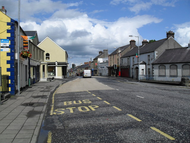 Kinelowen Street, Keady Looking north.